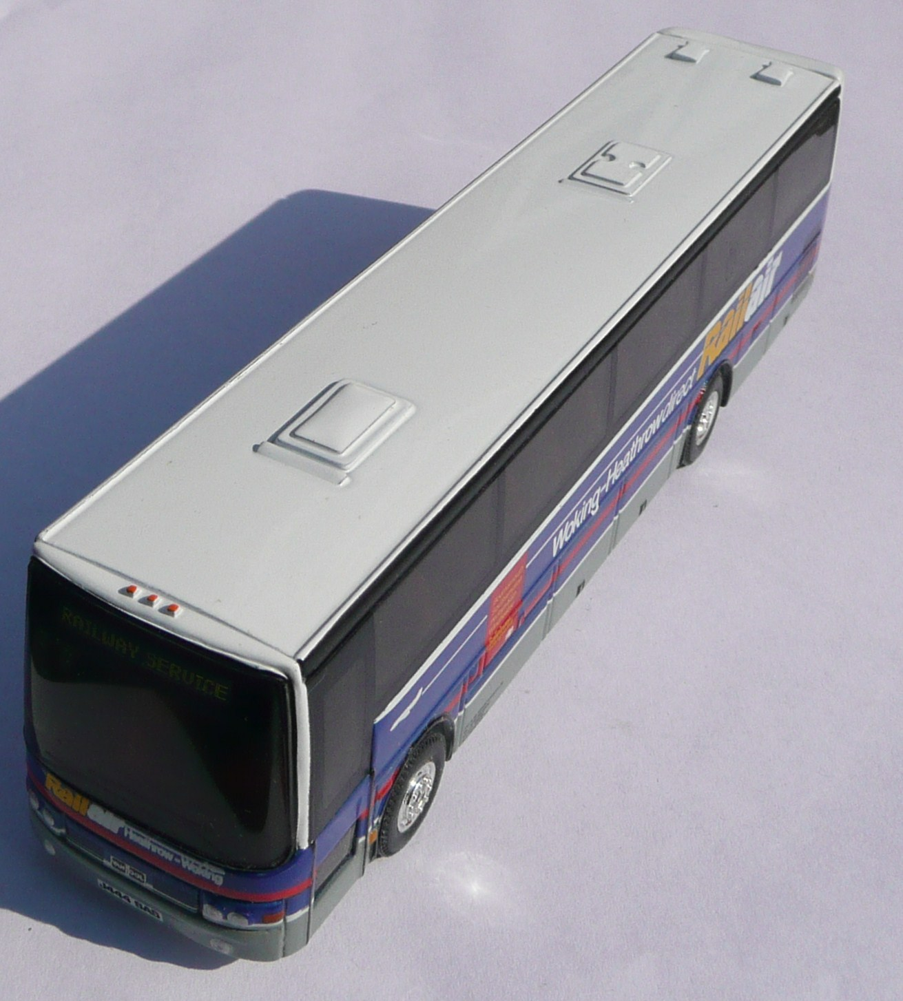 A photo of a model bus, Speedlink Airport Services' J444 SAG, a DAF bus/Van Hool coach, modelled on the Woking RailAir service. The model is manufactured by Corgi Classics Limited, under the "Original Omnibus Company" brand.